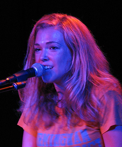 Rachel Platten performing at The Saint in Asbury Park, New Jersey on June 4th, 2011. Photo by LHCollins.